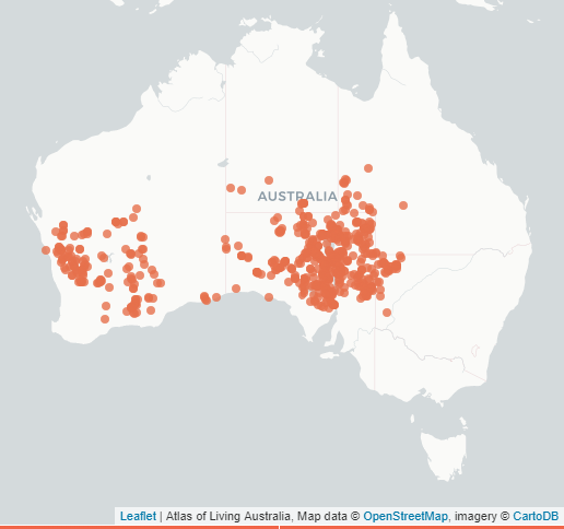 Occurrence records map (905 records) retrieved from Atlas of Living Australia